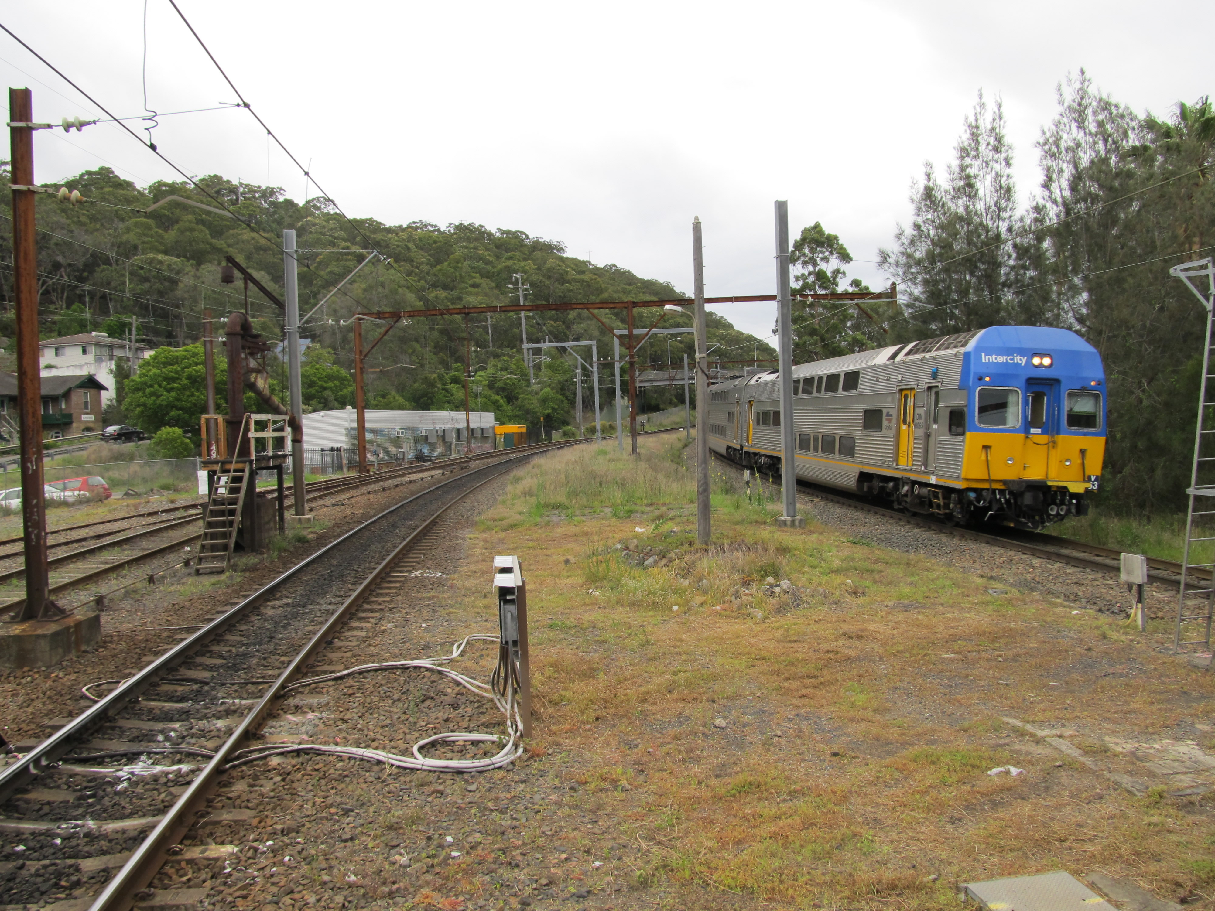 The start of the Cowan Bank at Hawkesbury River railway station. A down Interurban train approaches the station from the south after descending the 1 in 40 grade from Cowan.